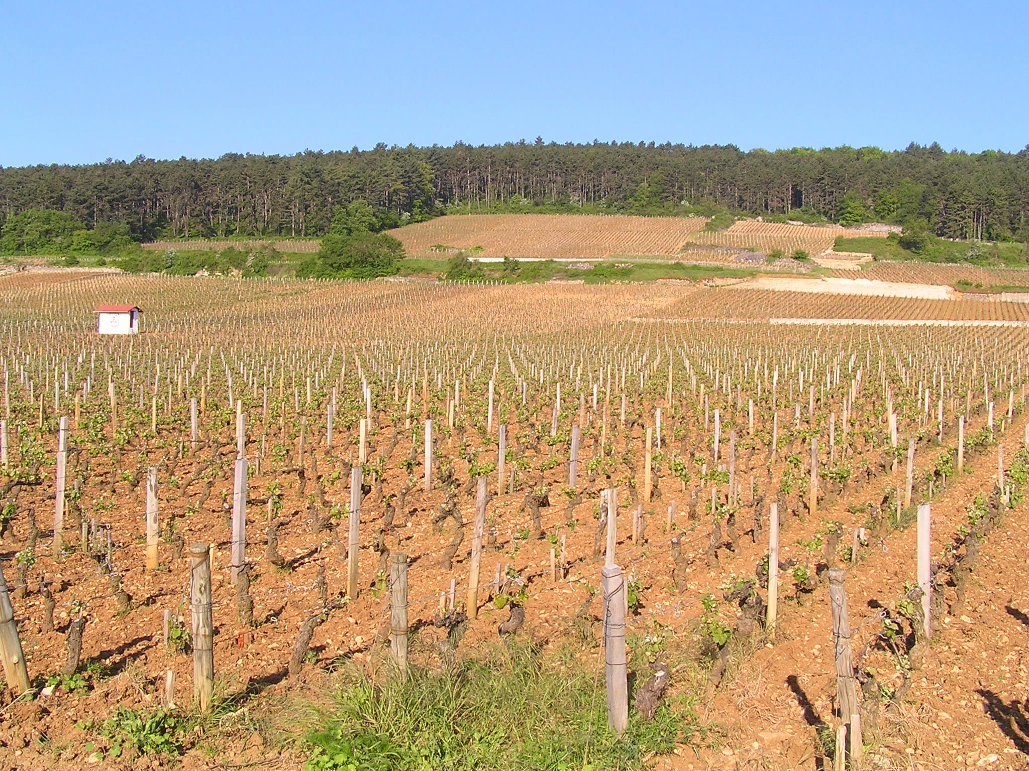 Low yielding Pinot Noir vines situated in the prestigious Clos de Bèze grand cru vineyard, Gervey-Chambertin, Burgundy, France. May 2005. Photo by Gavin Sherry. Fișier:Pinor Noir vines